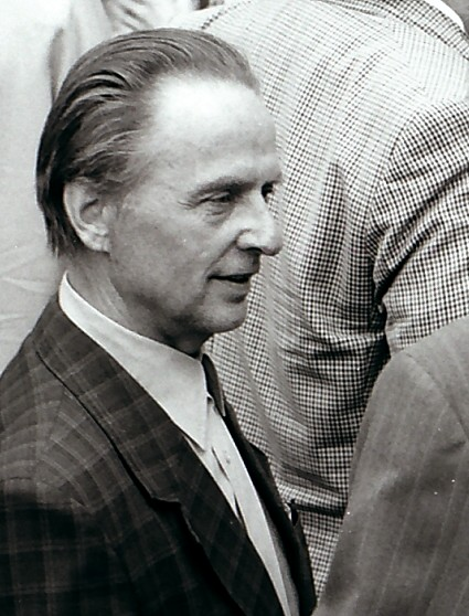 Politician, Journalist, Poet Gintautas Iešmantas, Lithuania